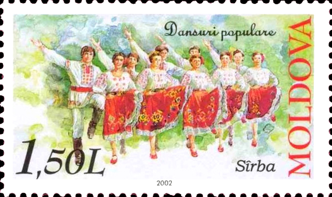 Stamp of Moldova